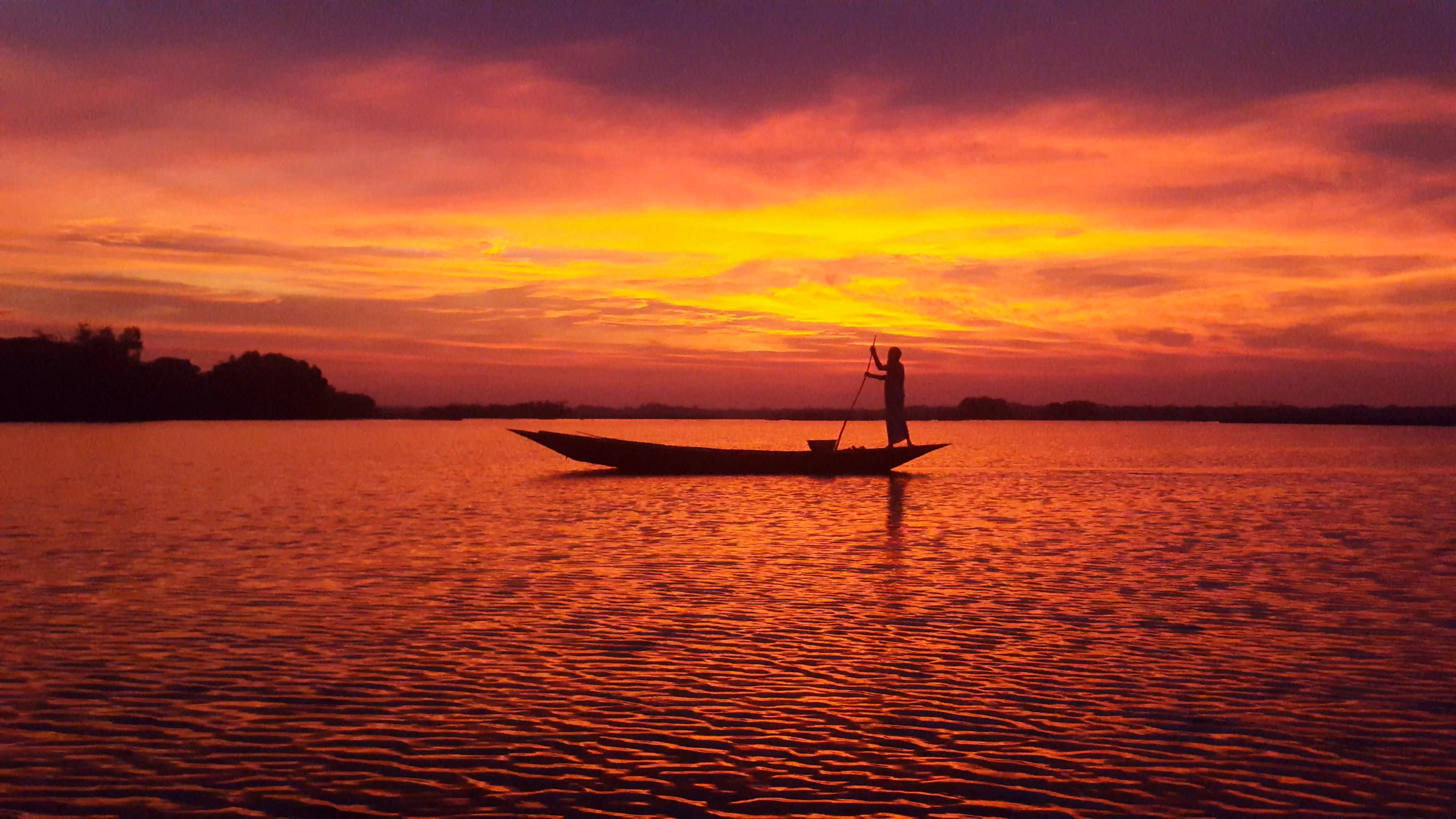 Padma is one of the biggest river in Bangladesh. In the very evening it looks so beautiful.This picture is not edited.